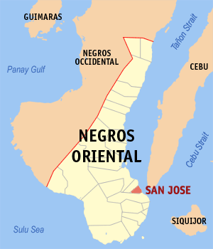 Map of Negros Oriental showing the location of San Jose